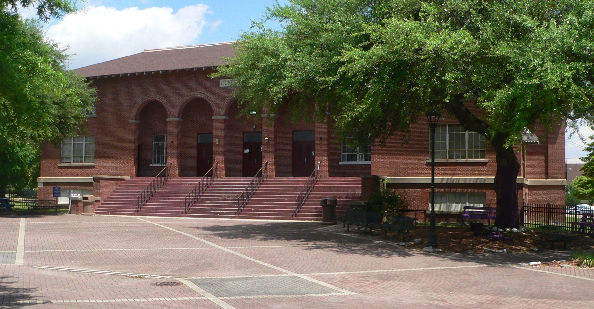 Dukes Gymnasium, on campus of South Carolina State University in Orangeburg, South Carolina; seen from the southwest.